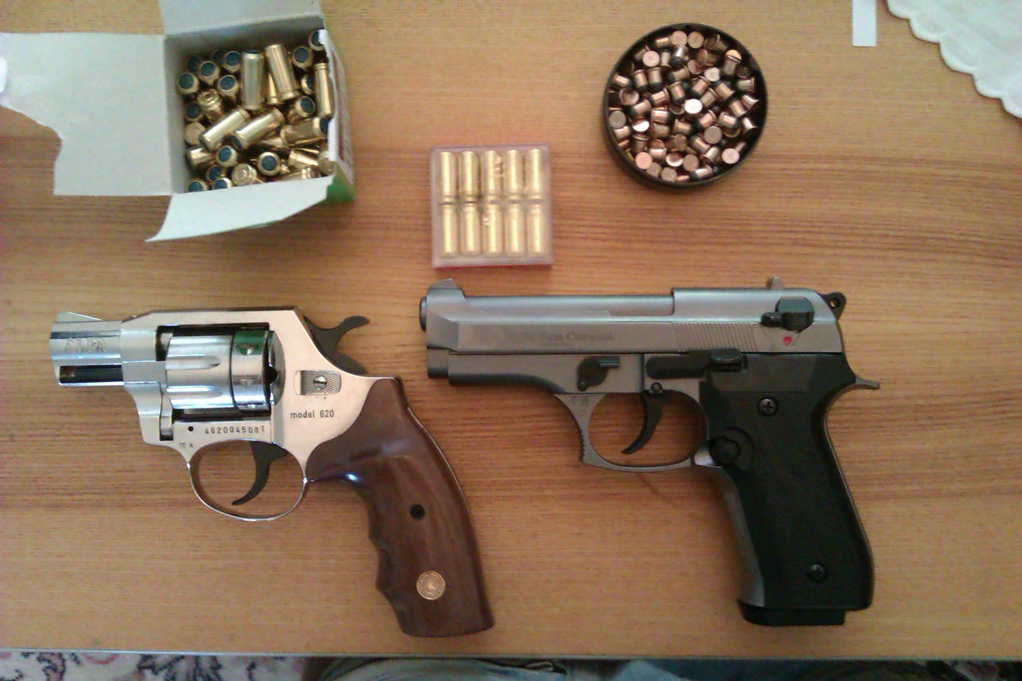 This is a photo I have taken of my two guns. One is a Flobert gun (Alfa 620, left) and the other one a blank gun (Ekol Firat Compact 9mm, right).